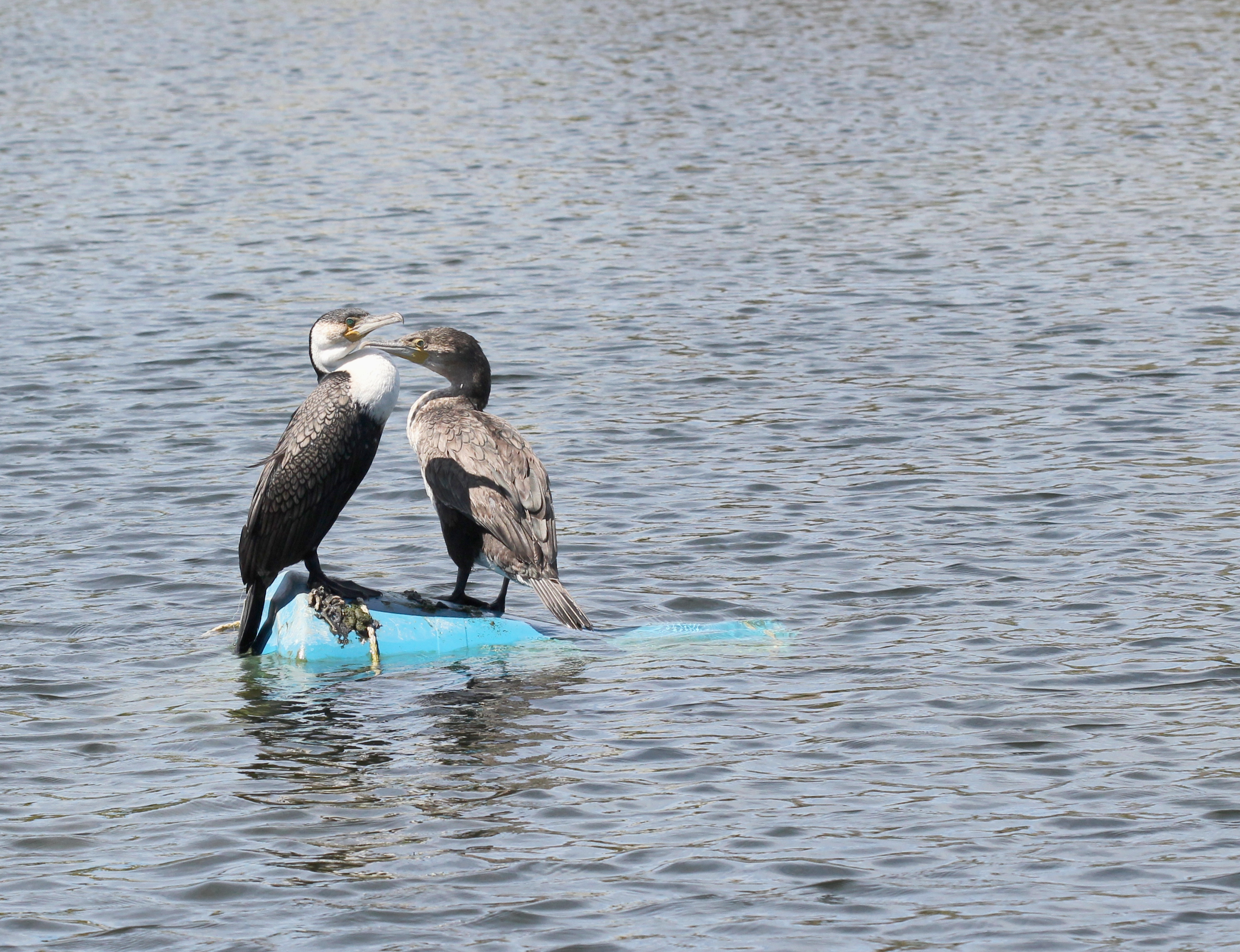 White-breasted cormorant Phalacrocorax lucidus female with immature young perched on a float in a freshwater dam.